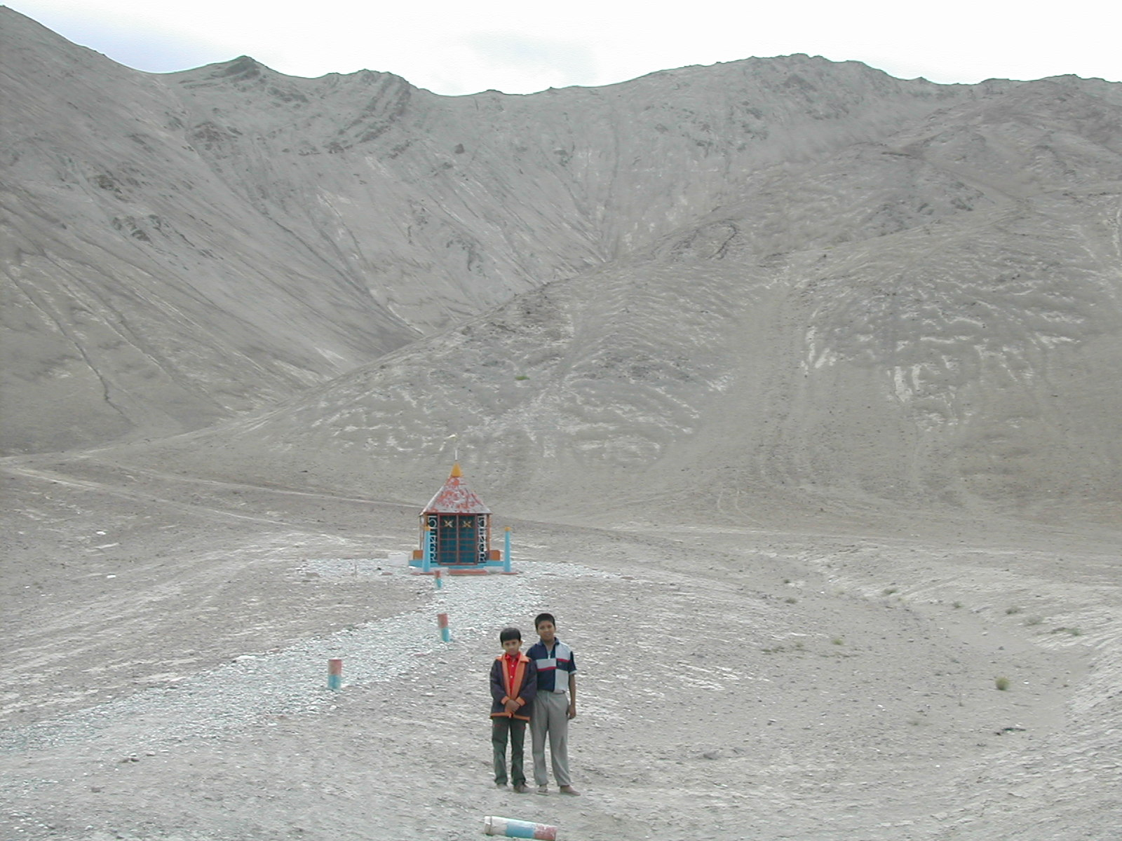 Magnetic Hill in Ladakh, India. Photo by Gangadhar Tambe.